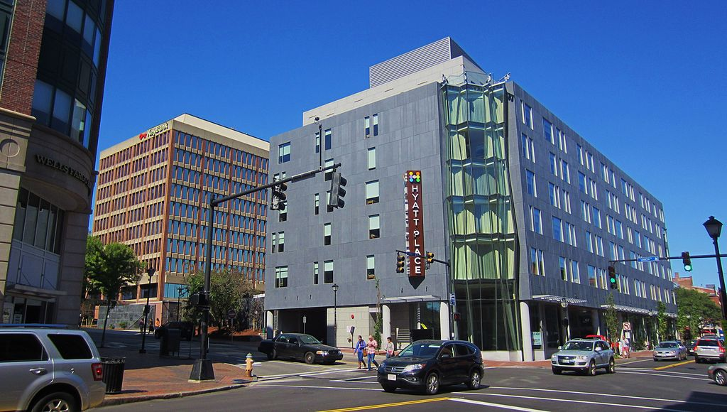 Hyatt Hotel in Old Port